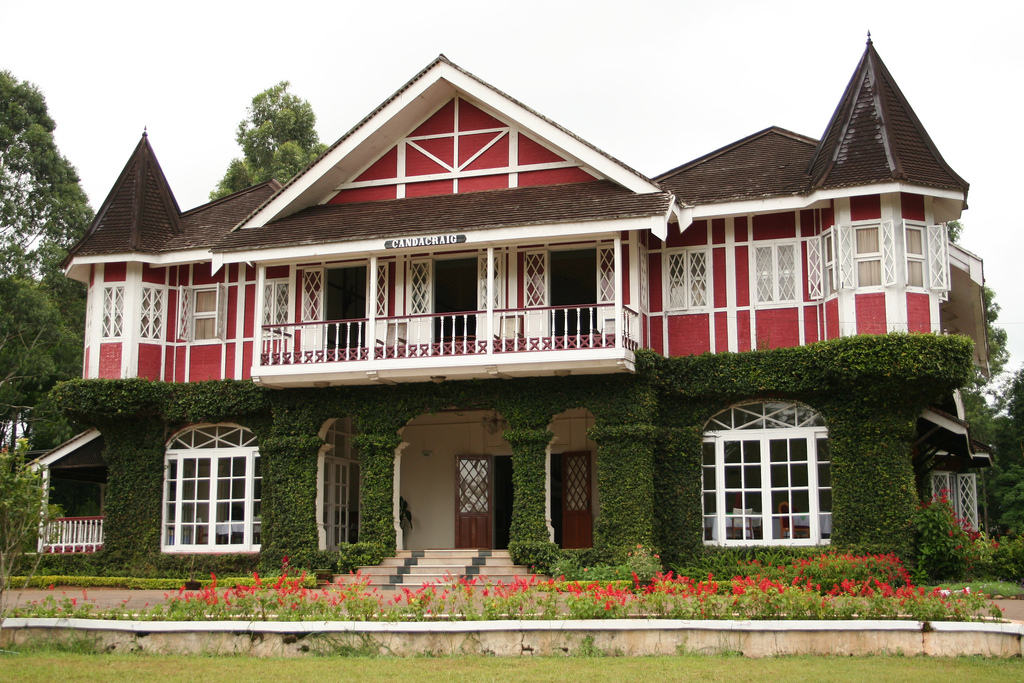 Candacraig hotel in Pyin U Lwin (Maymyo)